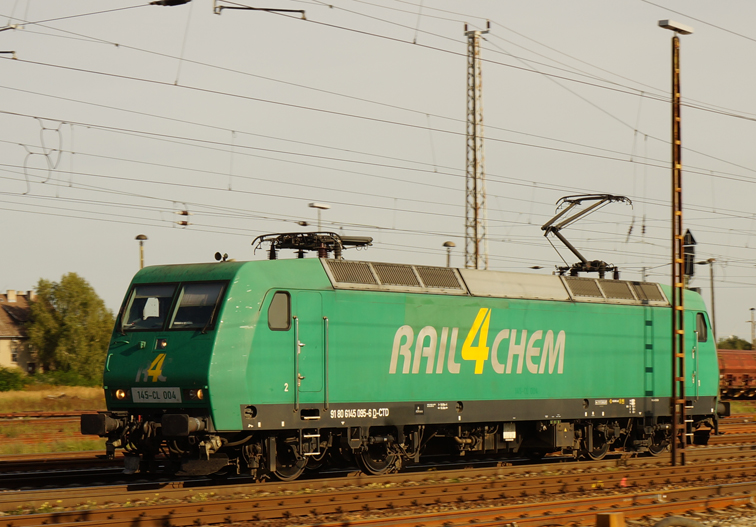 Loco 145 moving in Angermünde